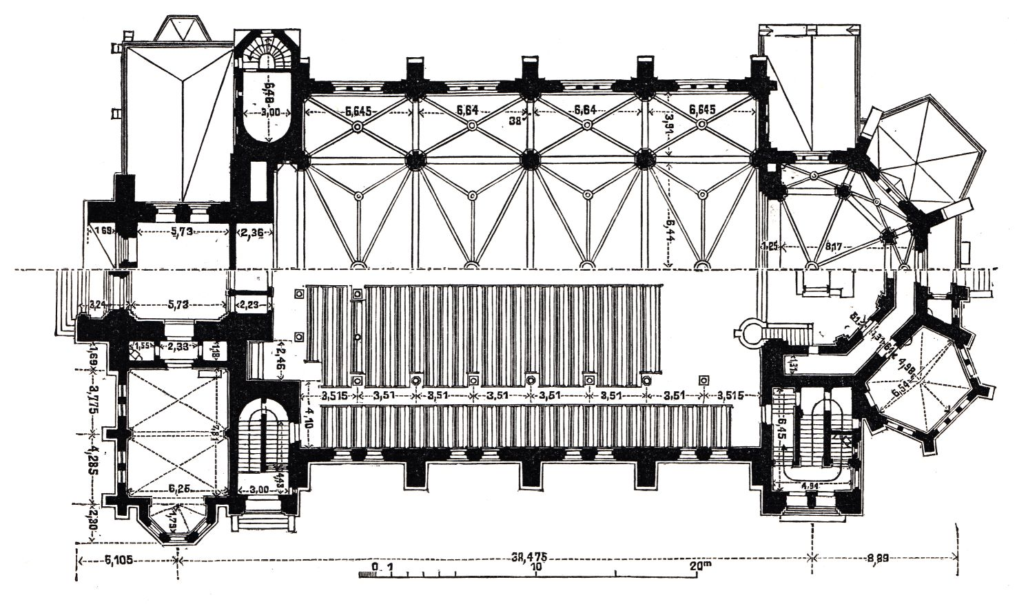 Berlin - Auferstehungskirche, plan view